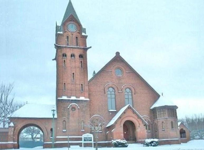 First Congregational Church in St. Albans, Vermont